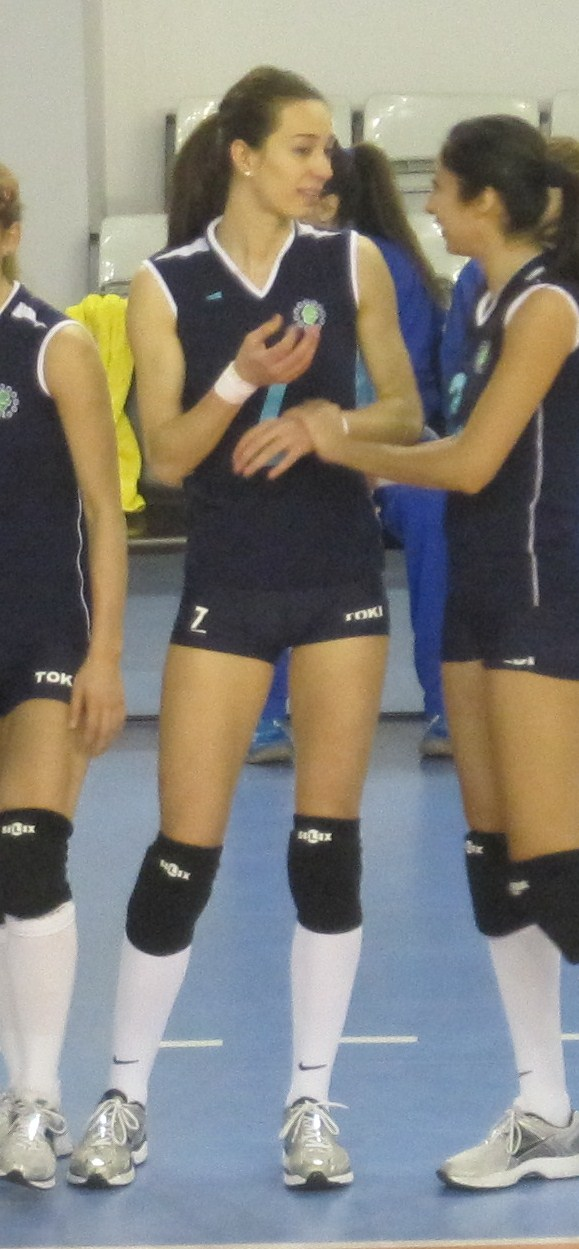 Turkish volleyball player Pınar Cankarpursat